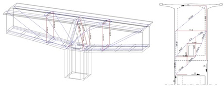 Modelos de dimensionamento das regiões dos diafragmas